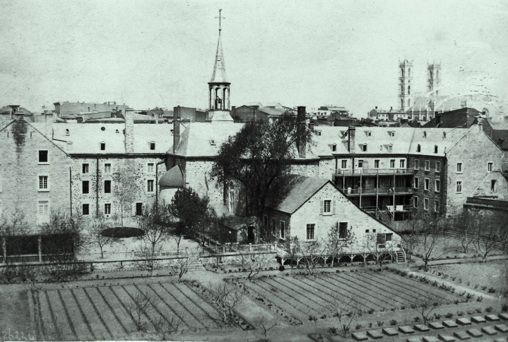 Photograph Vegetable garden, Grey Nunnery, Youville Street, Montreal, QC, 1867, William Notman (1826-1891). Silver salts on paper - Albumen process - 12 x 17 cm